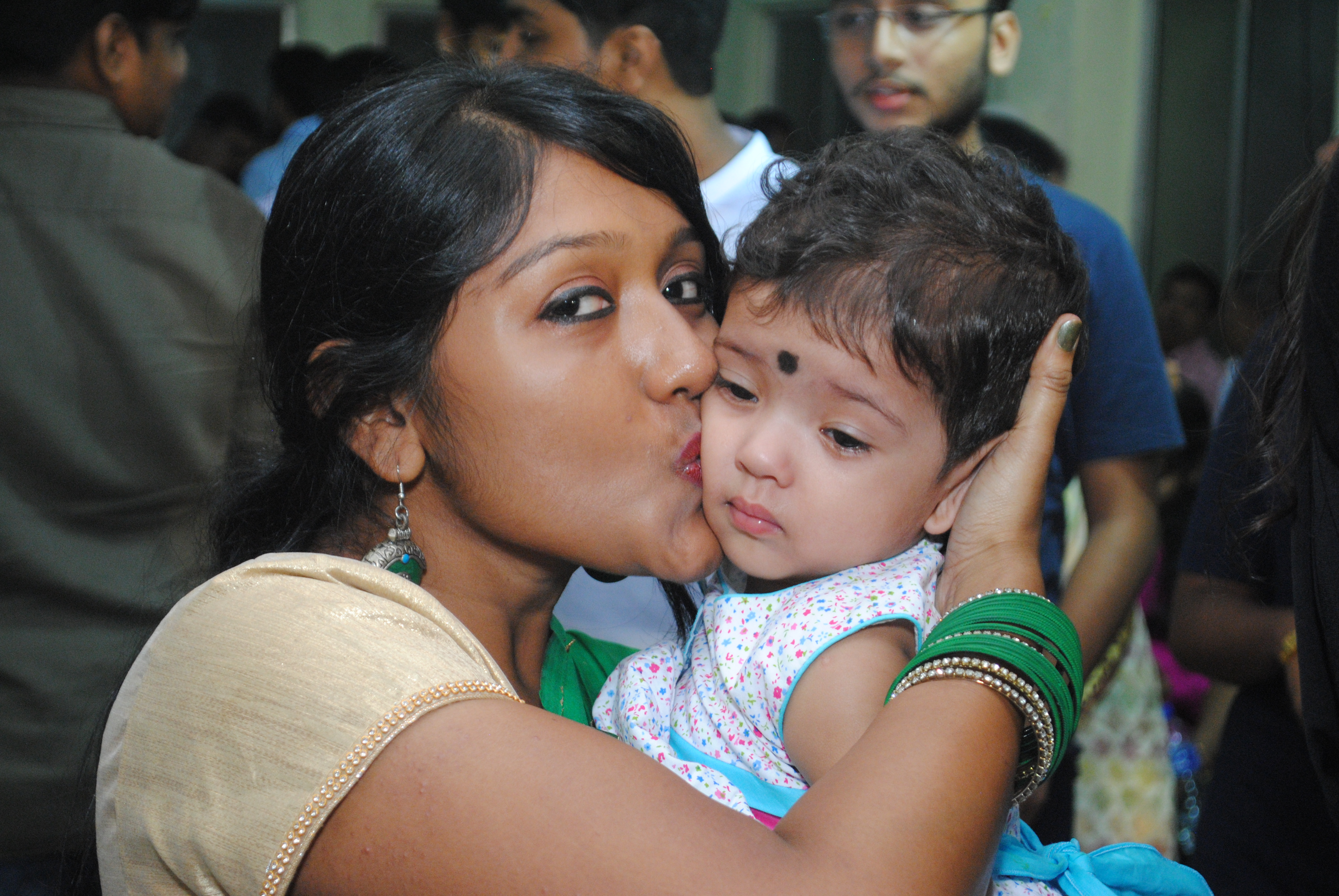 A kiss from her mother soothed her wound...truly a mother's kiss has an undefined magic This photo has been taken in the country: India